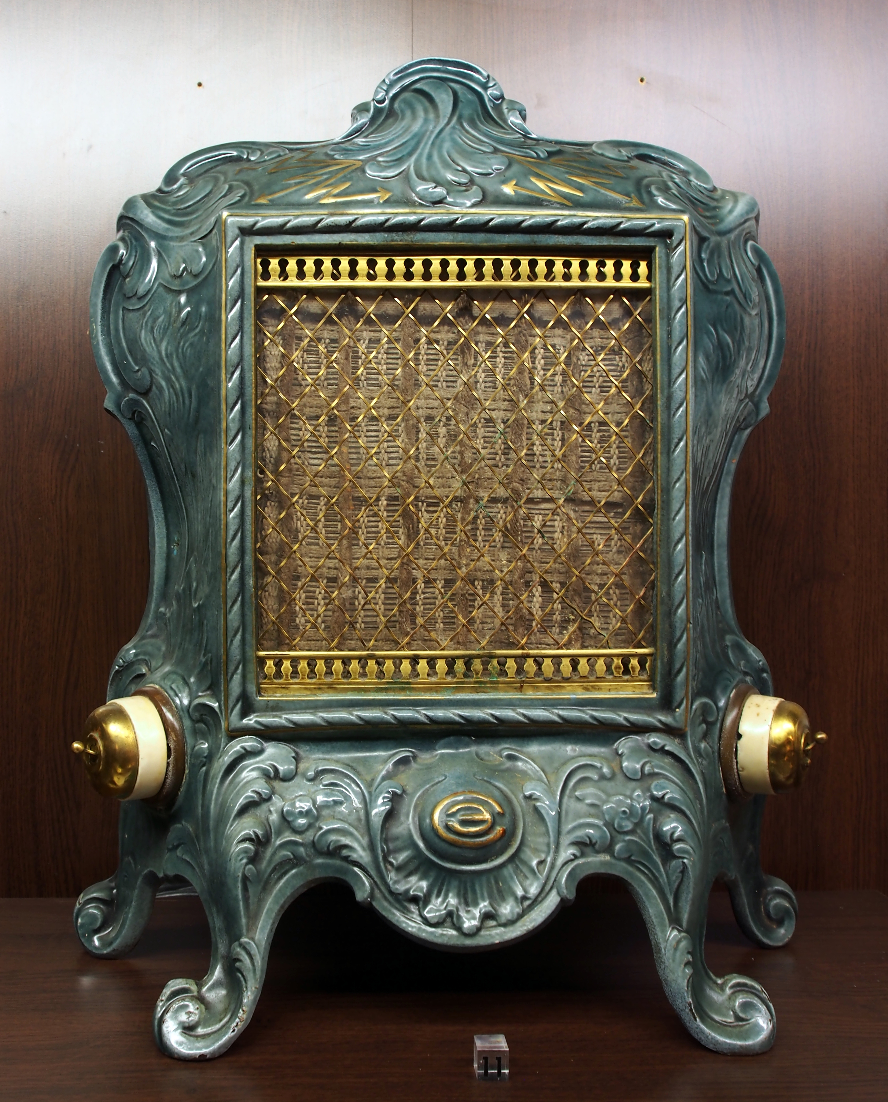 Photographed in Mulhouse, France.